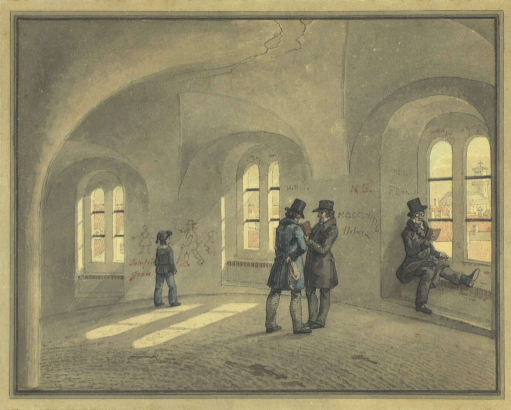 From the spiral ramp inside Rundetårn in Copenhagen, Denmark